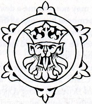 Badge of The Heraldry Society drawn by me based on standard reference materials and scanned.